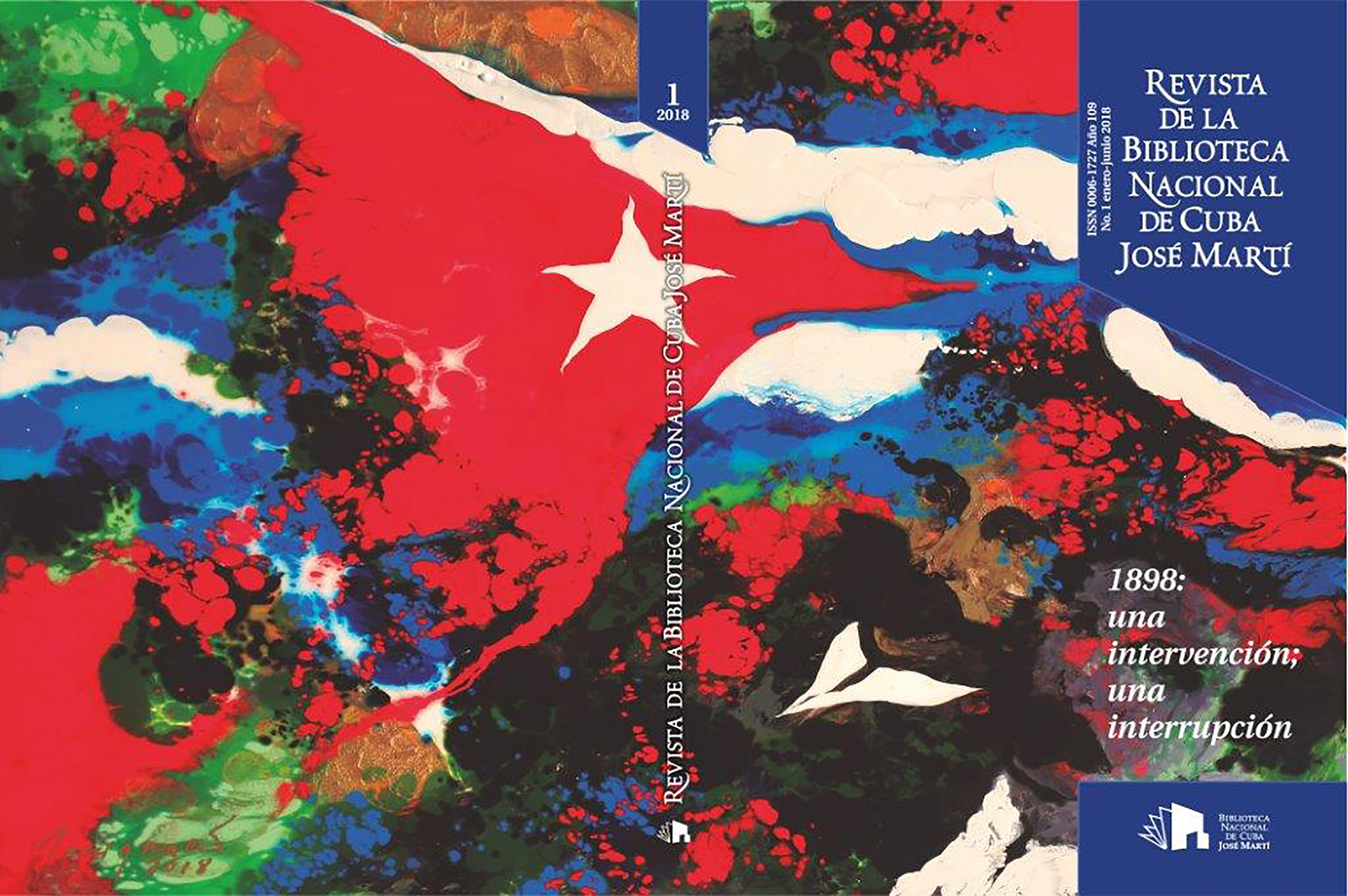 This Josignacio's painting was selected to illustrate the cover and back cover of the National Library of Cuba's magazine 1/2018